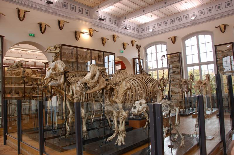 The skeletons room of the Fragonard Museum of the National Veterinary School of Alfort (France)